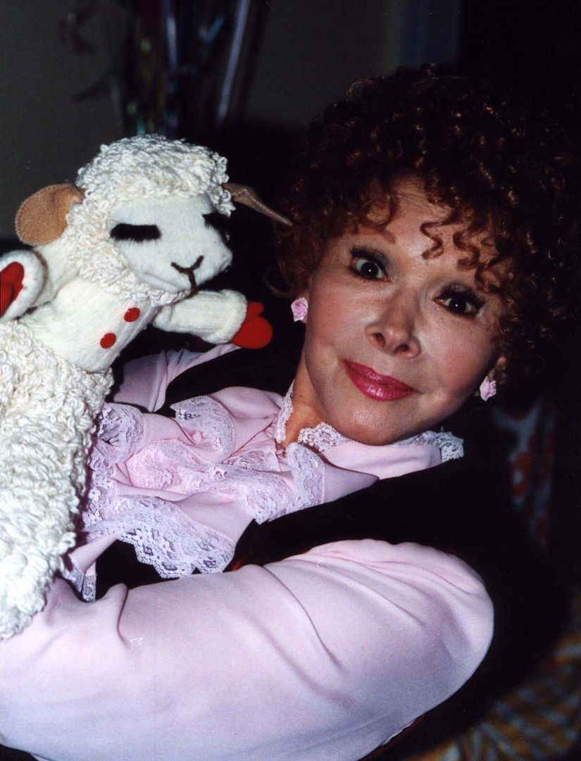 From Larry King Birthday party 11-19-1993 Wash. D.C.